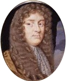 Lord William Russell (1639-1683)